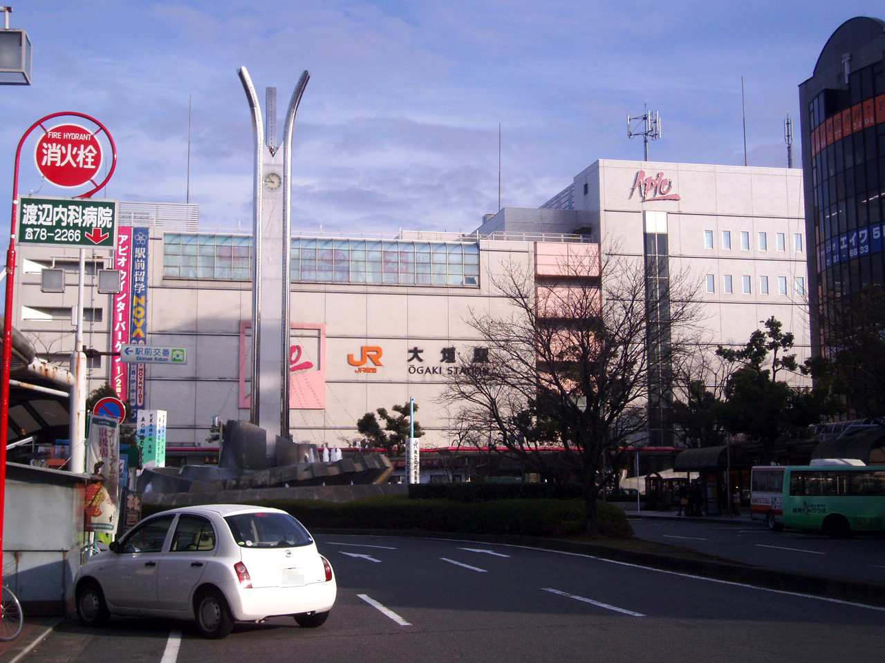 Central Japan Railway Tokaido Line & Tarum i Railway Tarumi Line Ōgaki Station South Gate